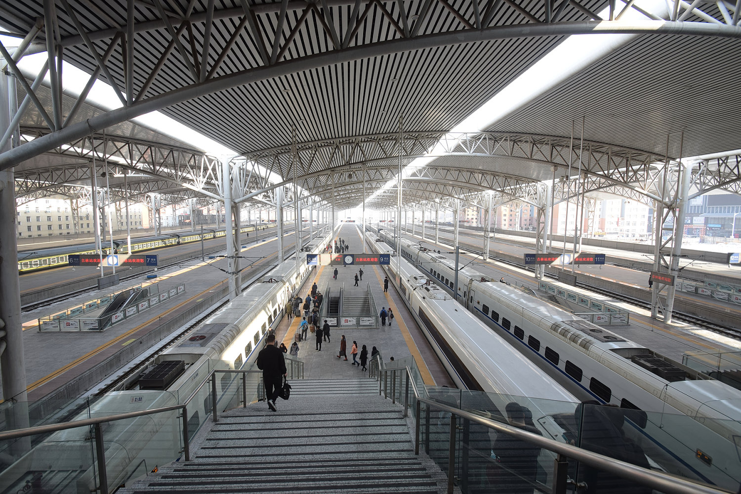 Platforms of Jilin Railway Station, view towards Shuangji Railway Station.